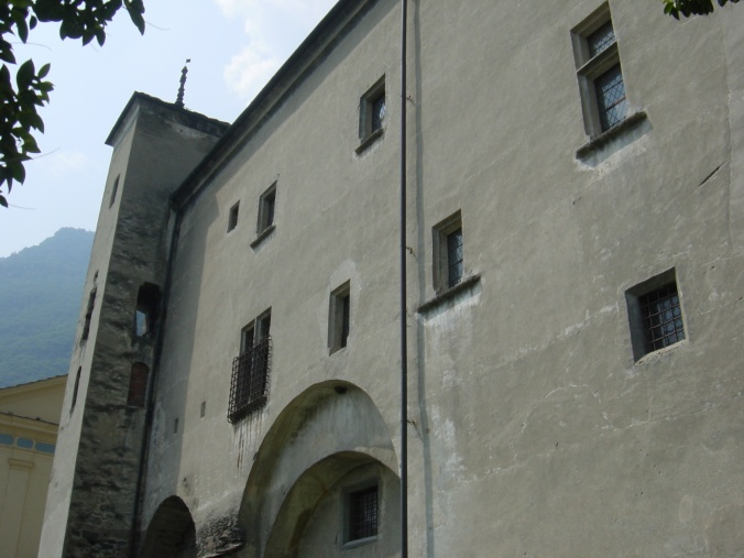 View of north side of Issogne castle